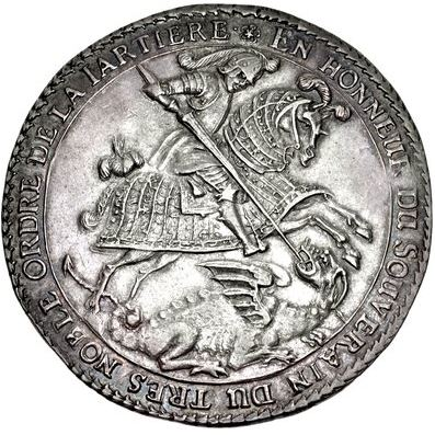 GERMANY, Sachsen-Albertinische Linie. Johann Georg II. Elector, 1656-1680. AR Taler (49mm, 23.32 g, 11h). On his election to the Order of the Garter. Dresden mint. Dated 1678. EN HONNEUR DU SOUVERAIN DU TRES NOBLL ORDRE DE LA IARTIERE • *, St. George, armored, on horseback right, piercing dragon with lance / DU TRÉ HAUT/TRÉ PUISSANT ET/TRES EXCELLENT PRIN/CE CHARLES • II • PARLA/GRACE DE DIEU ROY DE/LA GRANDE BRET AG :/FRAN : ET IRLANDE DE/FENSE EURDELA FOR • M • D • C • LXXVIII • in nine lines within wreath. Clauss & Kahnt 530; Schnee 942; Davenport 7633. Near EF, lightly toned.